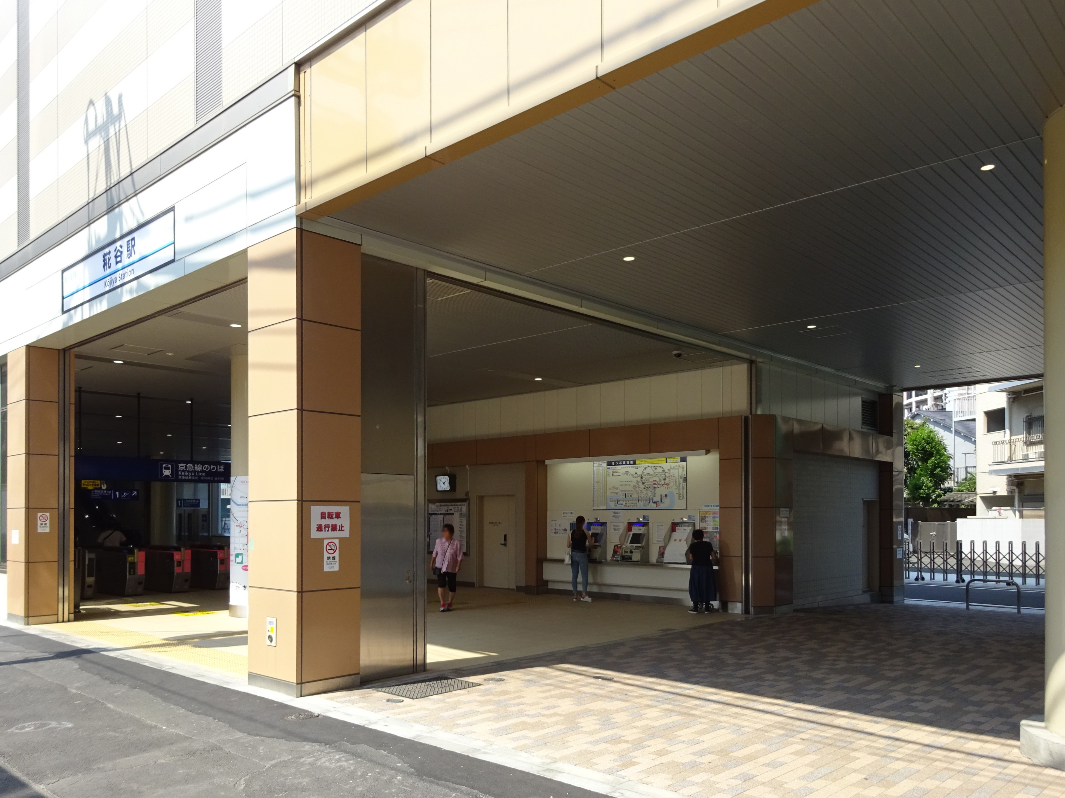 Kōjiya Station on the Keikyu Airport Line in Tokyo